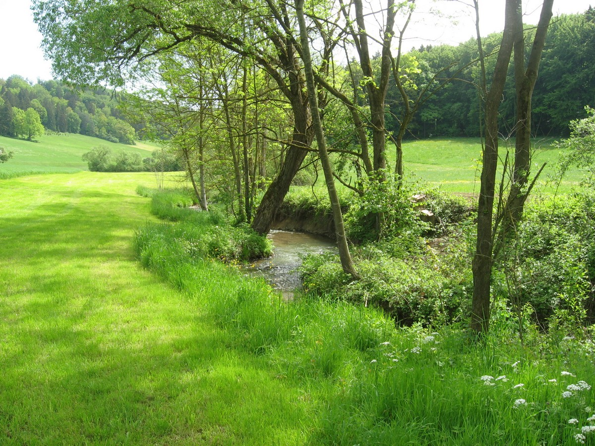 The valley of Rohrach between Windischhausen and Wettelsheim (Bavaria, Germany)